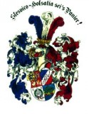 Das Wappen des Corps Slesvico-Holsatia